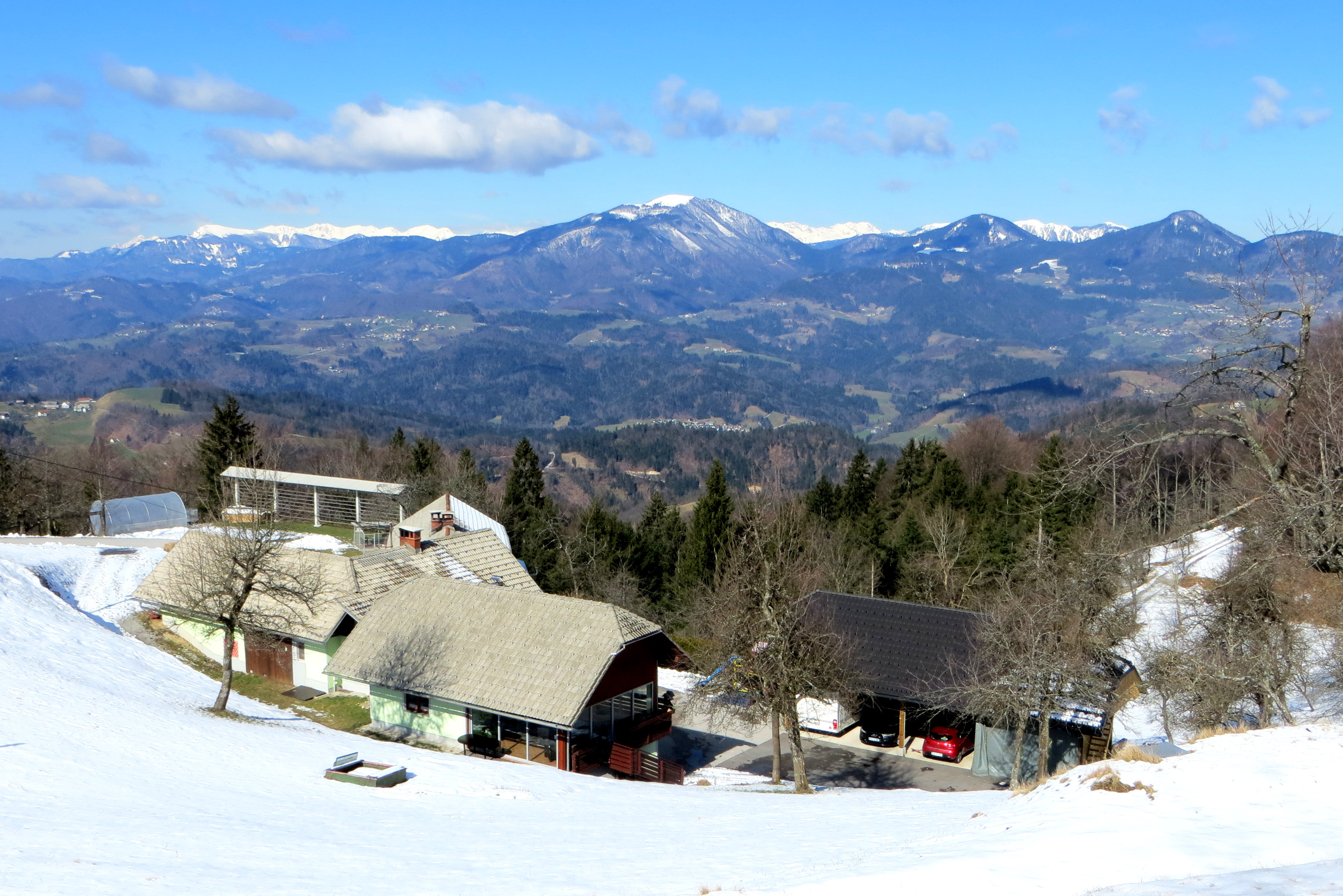 A farm in Bukov Vrh, Municipality of Gorenja Vas–Poljane, Slovenia